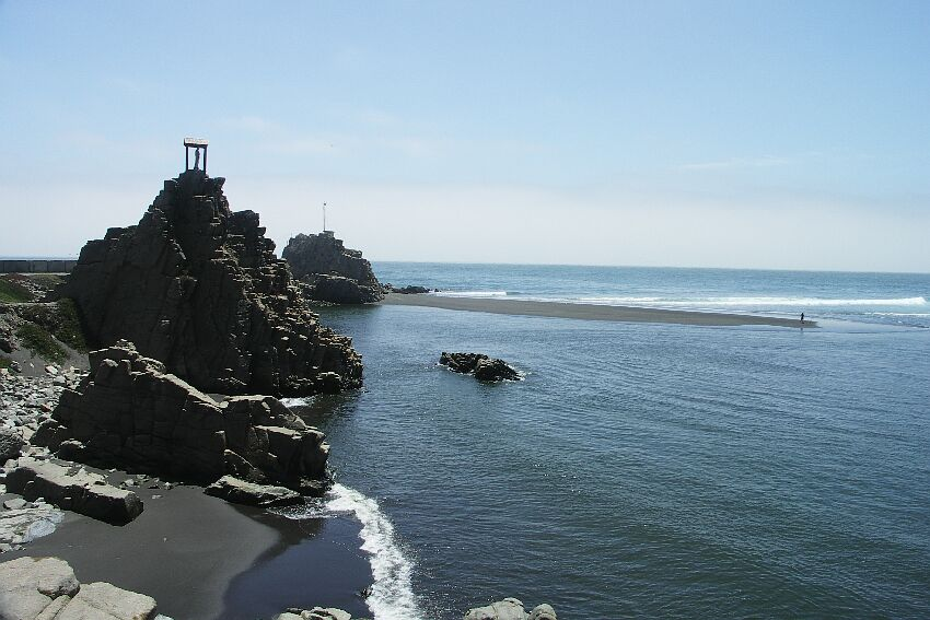 Río Maule Mouth, Chile